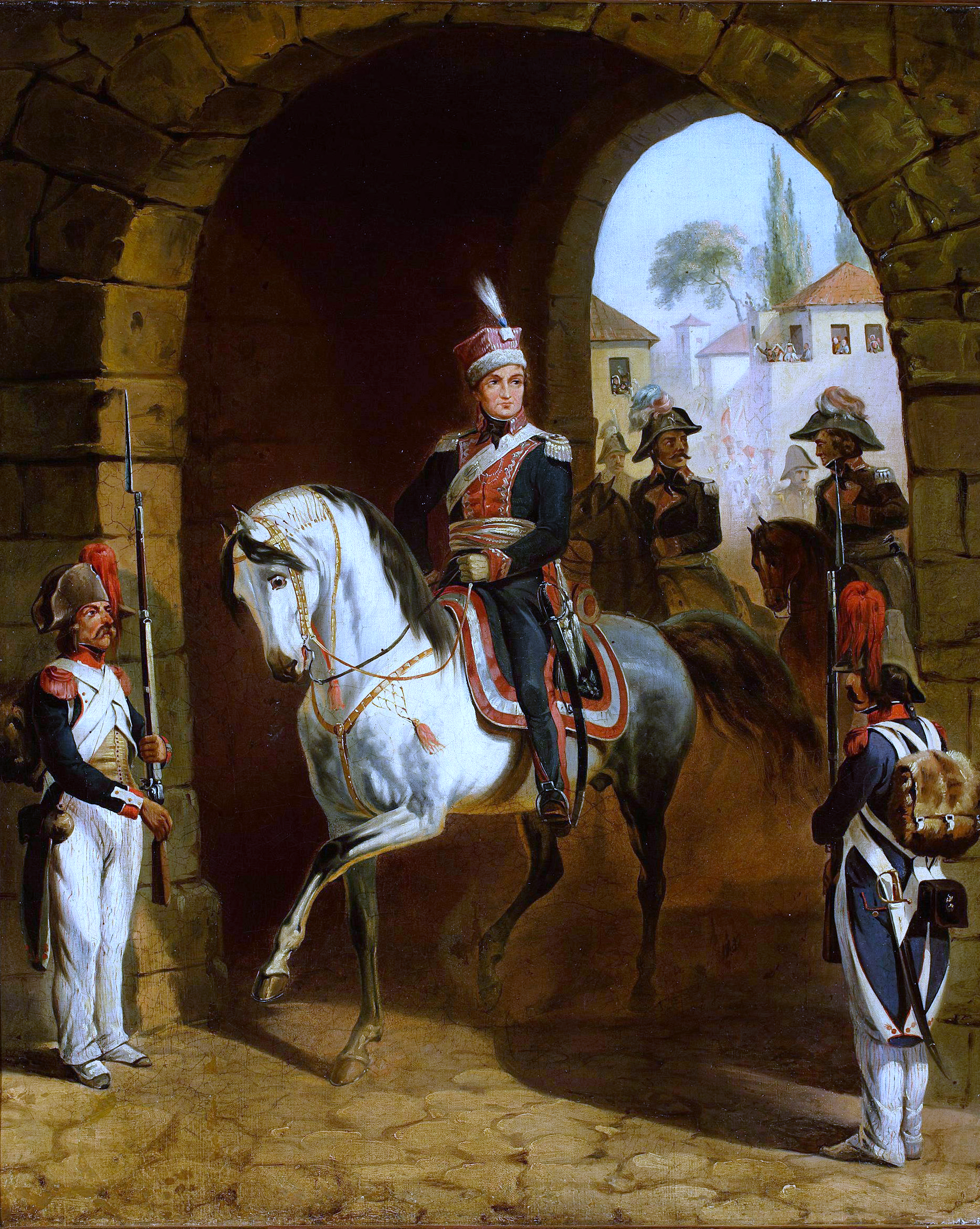 Jan Henryk Dąbrowski entering Rome